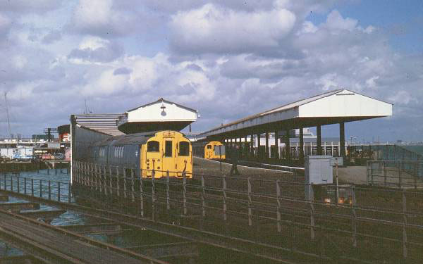 VEC & TIS units at Rhye Pier Head station.